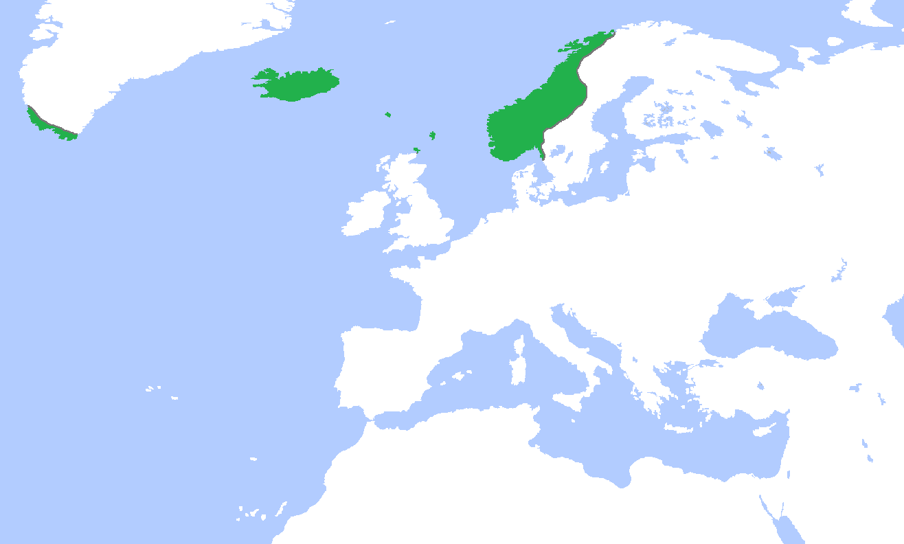 Locator map of the Kingdom of Norway, c. 1300. (Partially based on Atlas of World History (2007) - The World 1200-1300, map)